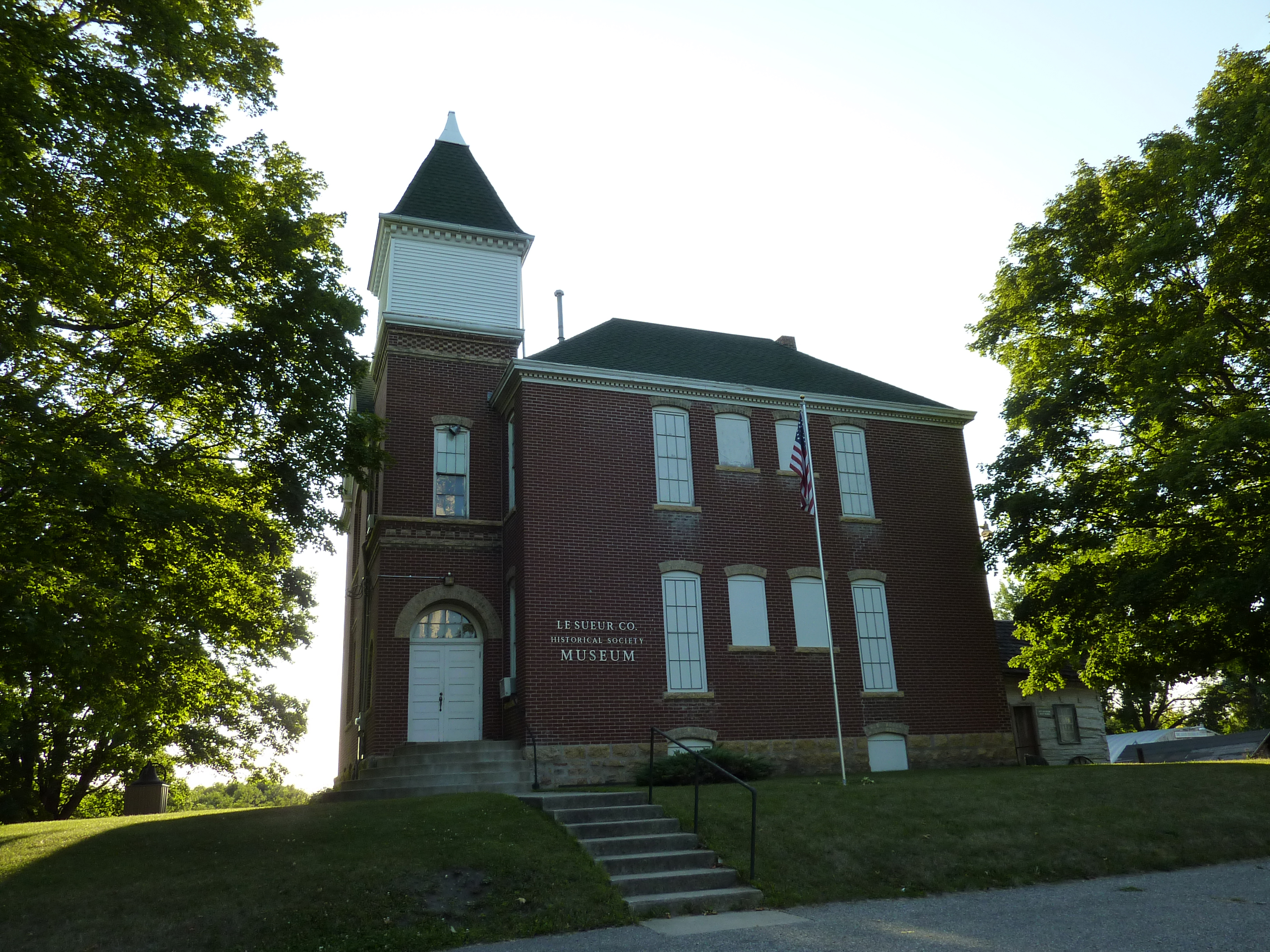 Elysian Public School building, now part of the Le Sueur County Historical Society, Elysian, Minnesota, USA.